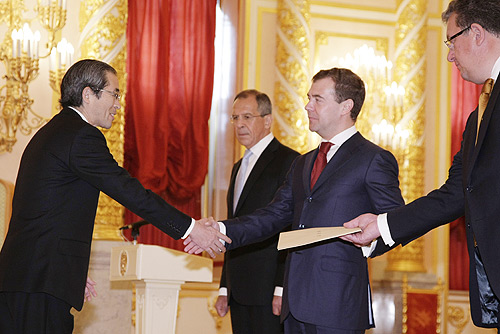 THE KREMLIN, MOSCOW. Presentation by foreign ambassadors of their letters of credence. Ambassador of Japan Masaharu Kono presents his letter of credence to the President of Russia.